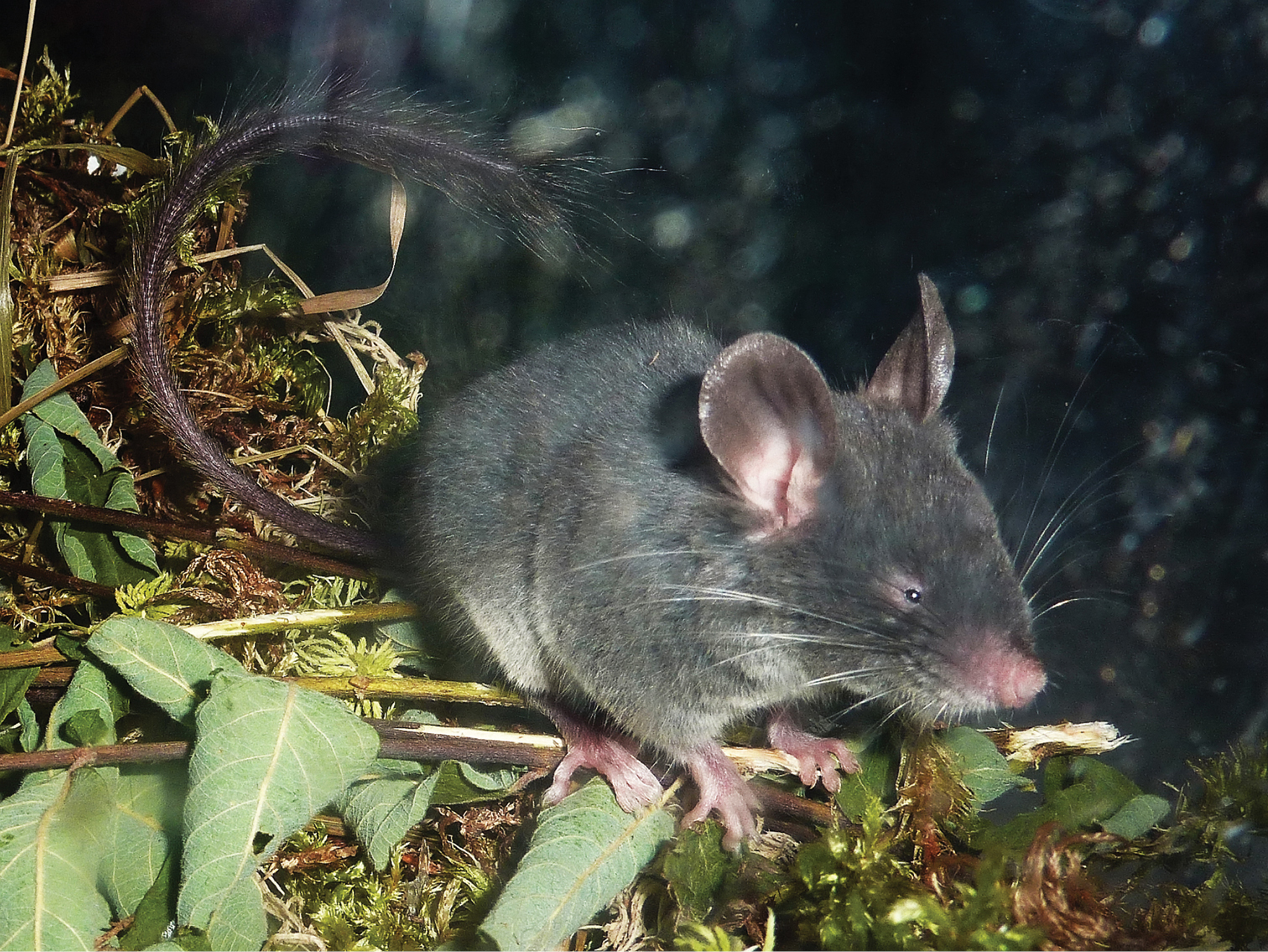 Typhlomys cinereus. Adult female from Sa Pa, Lao Cai Province, northern Vietnam.